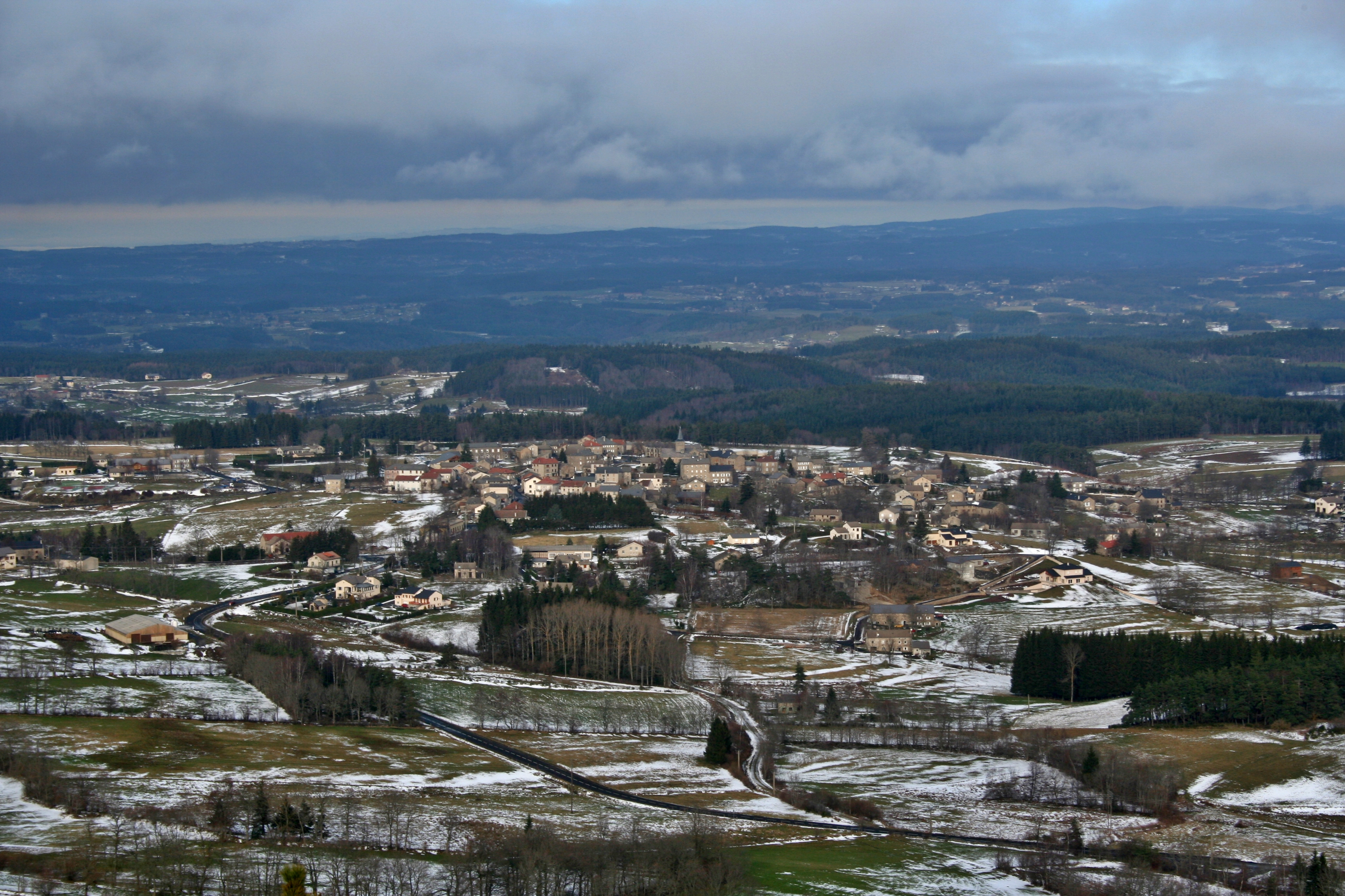 Saint-Jeures, as seen from the top of the Suc du Mounier. Haute-Loire département, France.